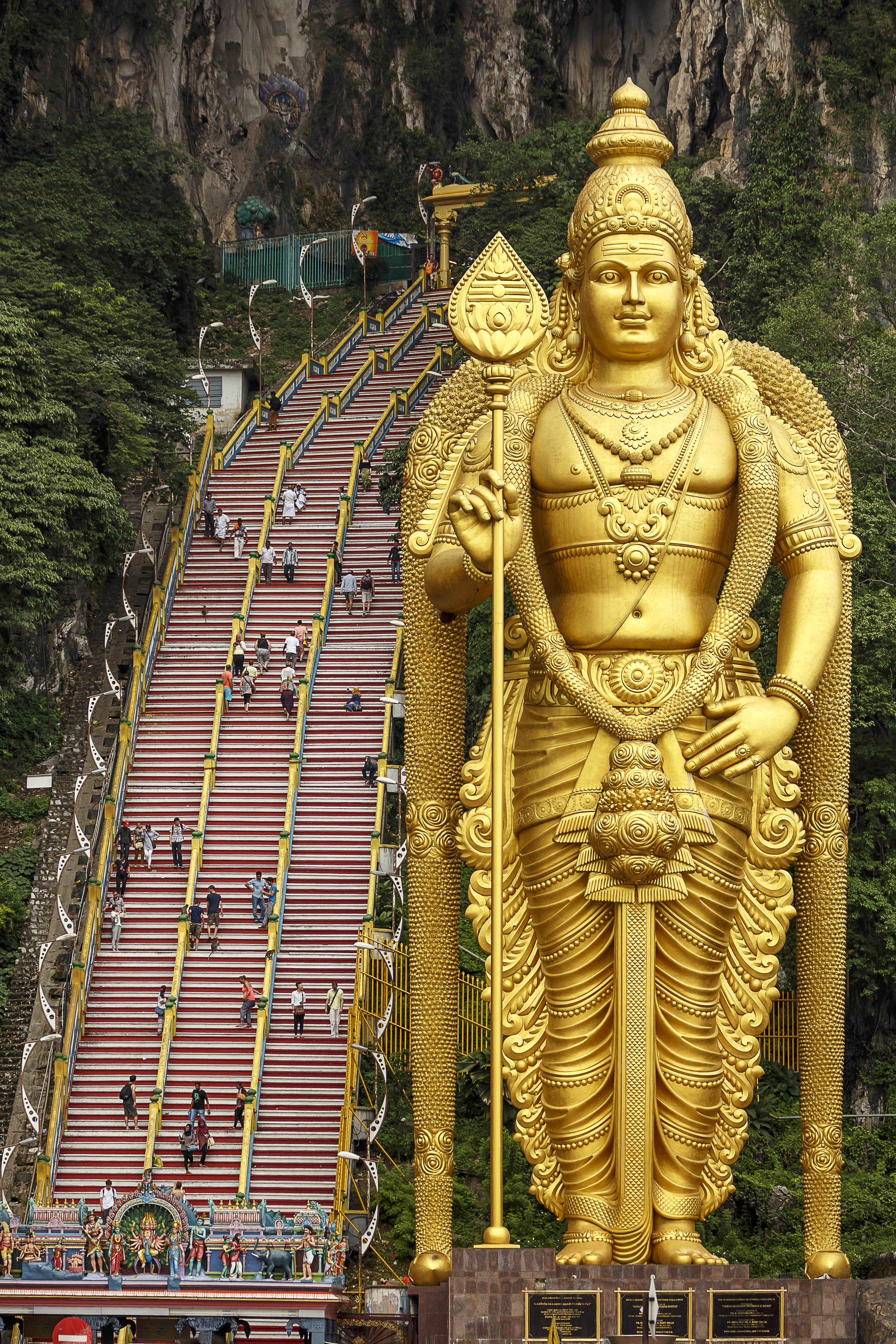 Batu Caves, Gombak, Selangor, Malaysia: The statue of Lord Murugan beside the Batu Caves staircase.